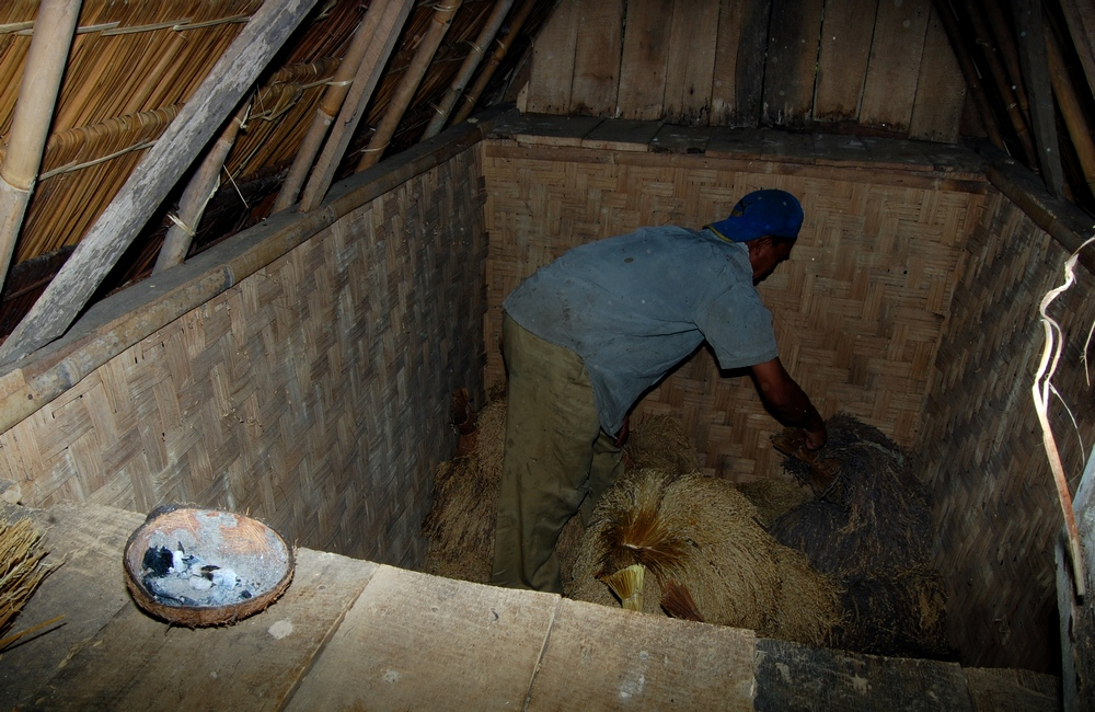 Inside a leuit, traditional Sundanese rice barn. Sirnarasa, Kasepuhan village near Palabuhanratu, Sukabumi, West Java